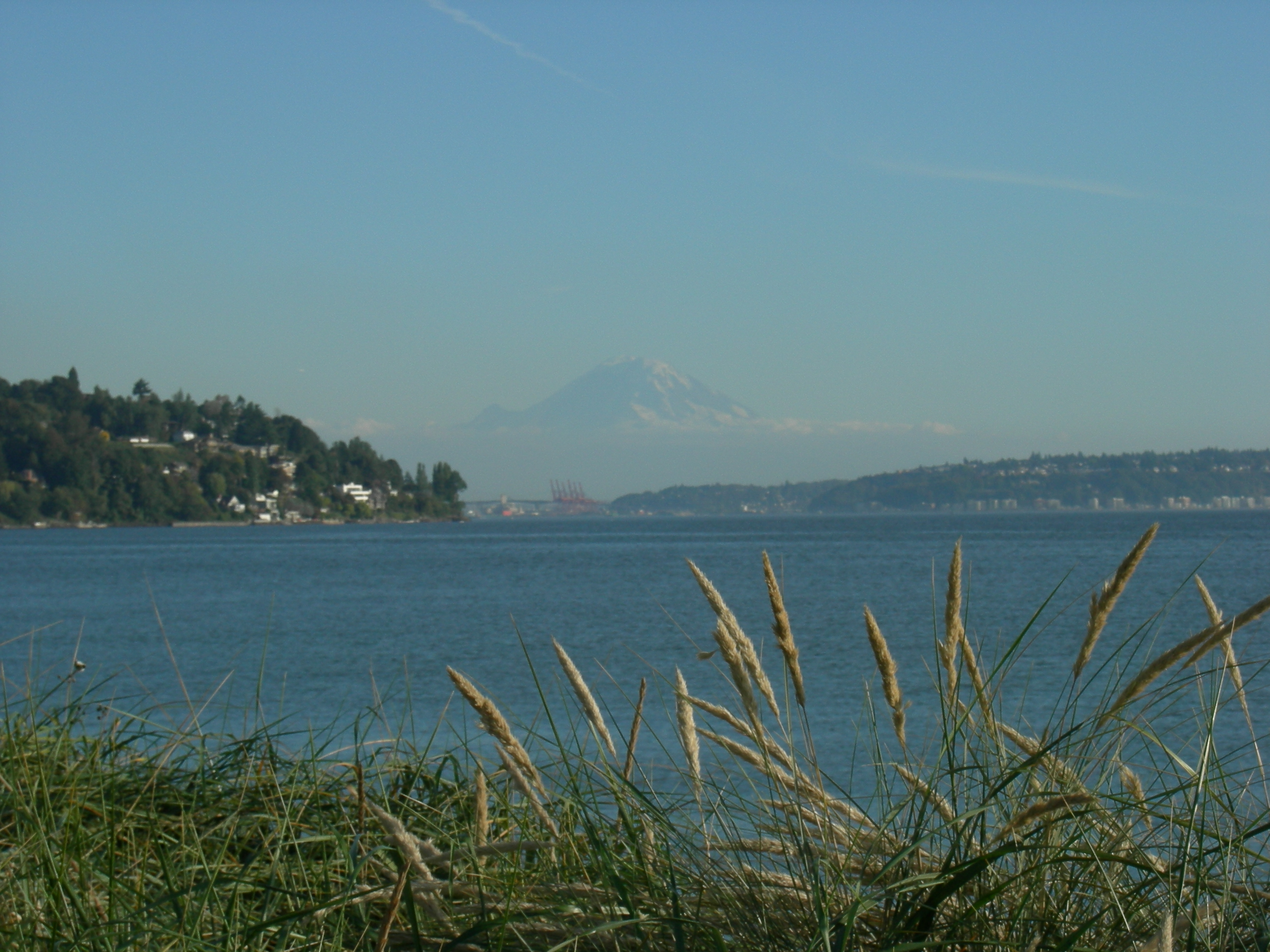 Looking roughly south (possibly a tiny bit east) from West Point, Discovery Park, Seattle, Washington, USA. In the foreground are plants on the park's south beach; at left are houses further south on Magnolia; at center the Industrial District and behind that Mount Rainier; at right, West Seattle. The body of water is the "outer" part of Elliott Bay, part of Puget Sound.